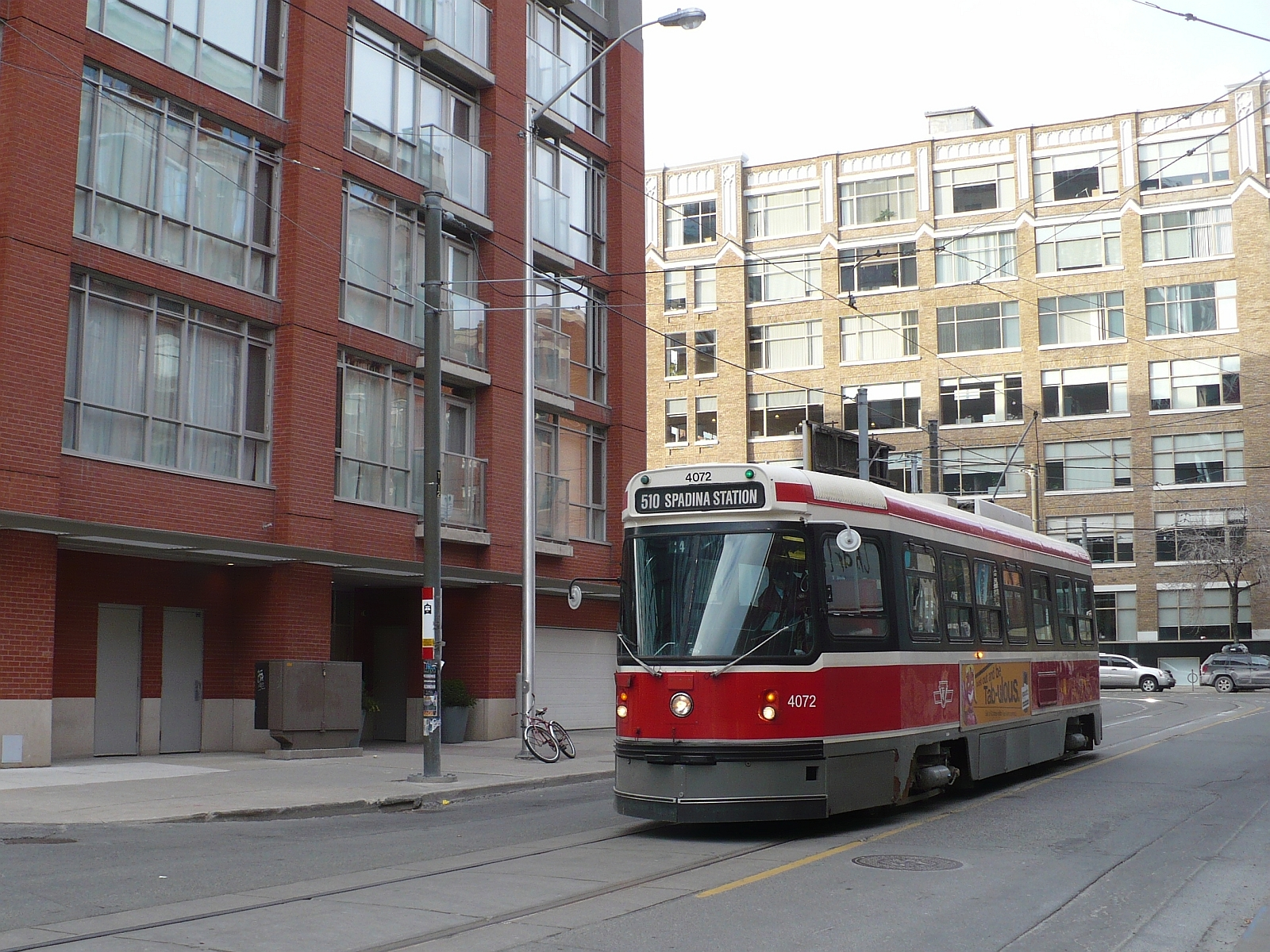 Streetcar on Charlotte Avenue in downtown Toronto, waiting to loop around and return to Spadina Station